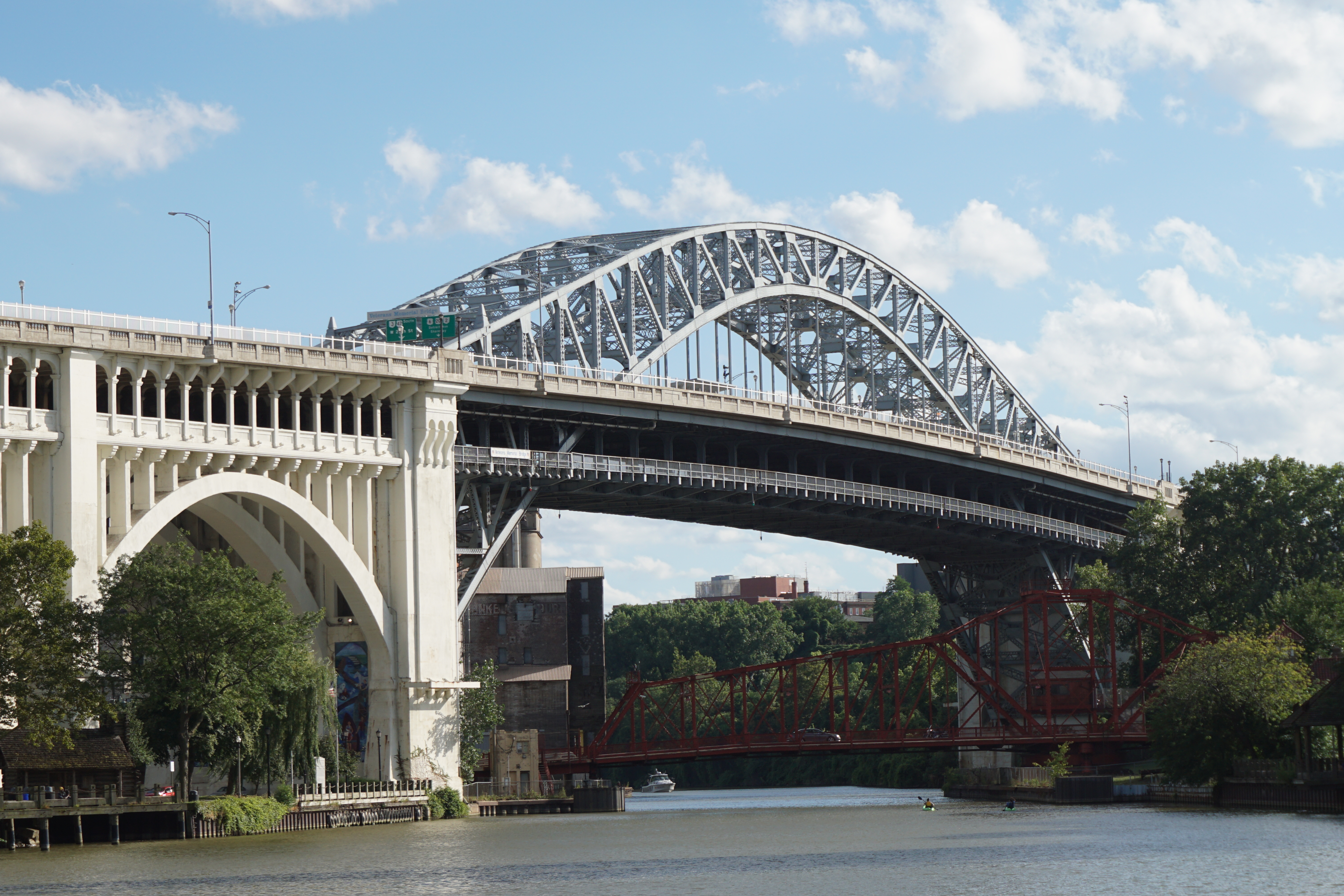 The Detroit–Superior Bridge in Cleveland, Ohio (United States).